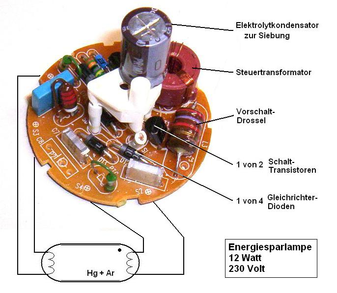 Electronic ballast for a 12 watt compact fluorescent lamp